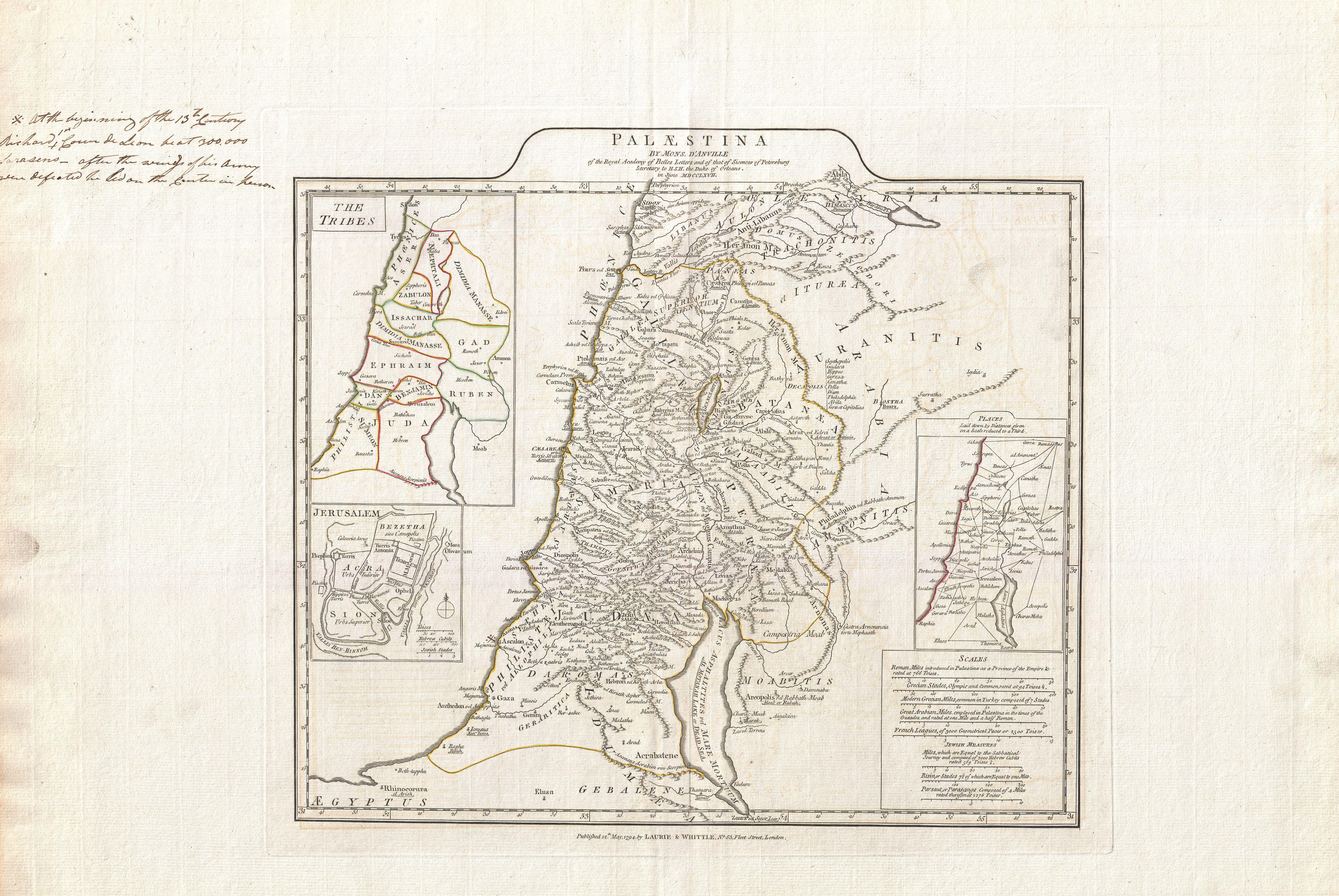 A large and dramatic J. B. B. D'Anville map of Palestine, Israel, or the Holy Land. Covers from the ancient city of Sidon in modern day Lebanon south as far the city of Gaza and Egypt. Details mountains, rivers, cities, roadways, and lakes with political divisions highlighted in outline color. Features three insets. The upper left inset details the lands claimed by each of the Tribes of Israel. The lower left inset features a plan of Jerusalem as it may have looked in antiquity. Notes the Temple, Calvary, and the Mount of Olives. A further inset in the lower right quadrant shows distances between various ancient cities in the region. Title area appears in a raised zone above the map proper. Includes eight distance scales, bottom right, referencing various measurement systems common in antiquity. Text in Latin and English. In the wide margin to the left of the map is a note in manuscript concerning the activities of Richard the Lionheart during the Third Crusade. This can easily be matted out, but we found it interesting so included it in the image above. Drawn by J. B. B. D'Anville in 1762 and published in 1794 by Laurie and Whittle, London.